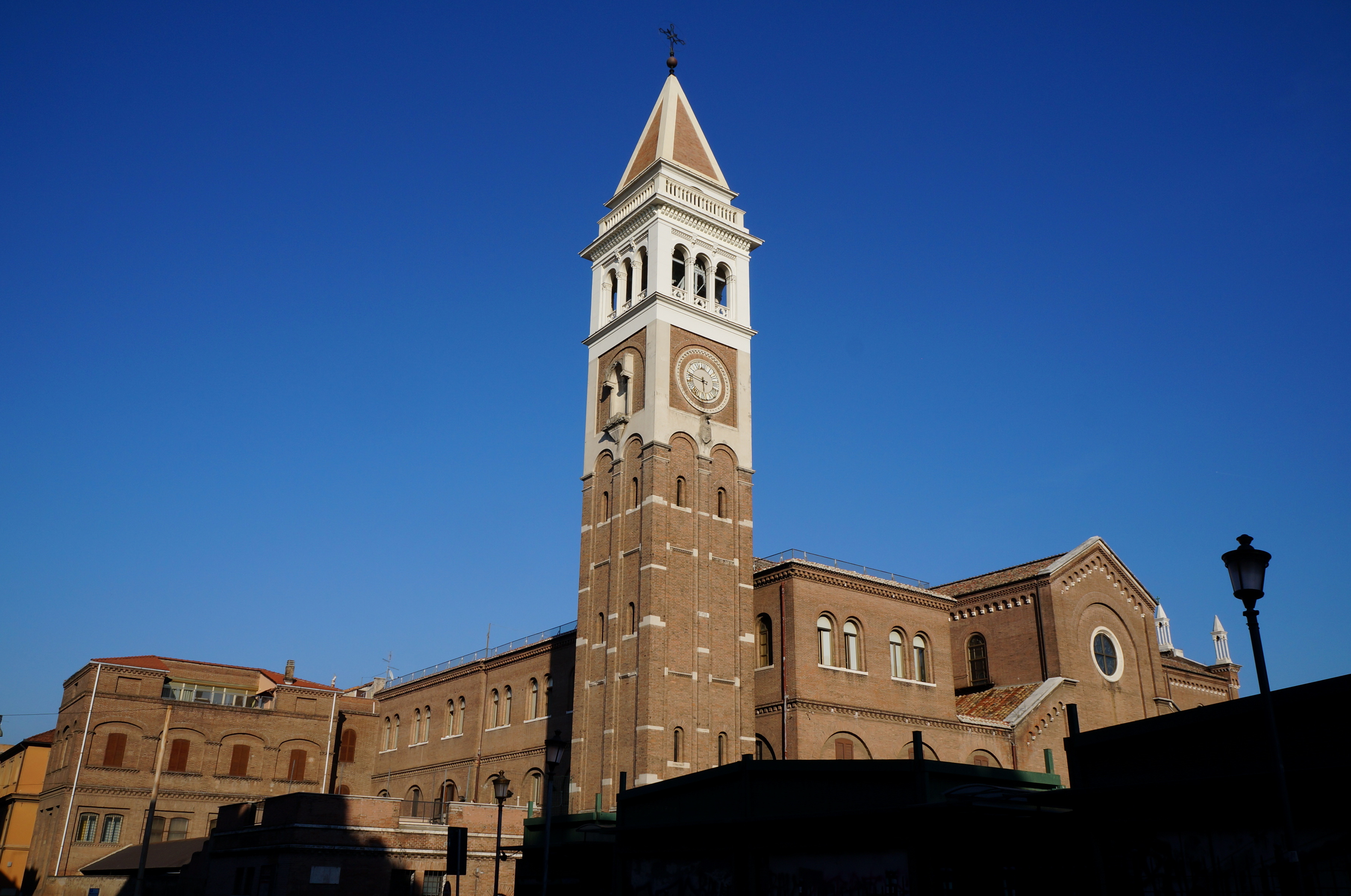 Quartiere Tiburtino, Roma. Italy